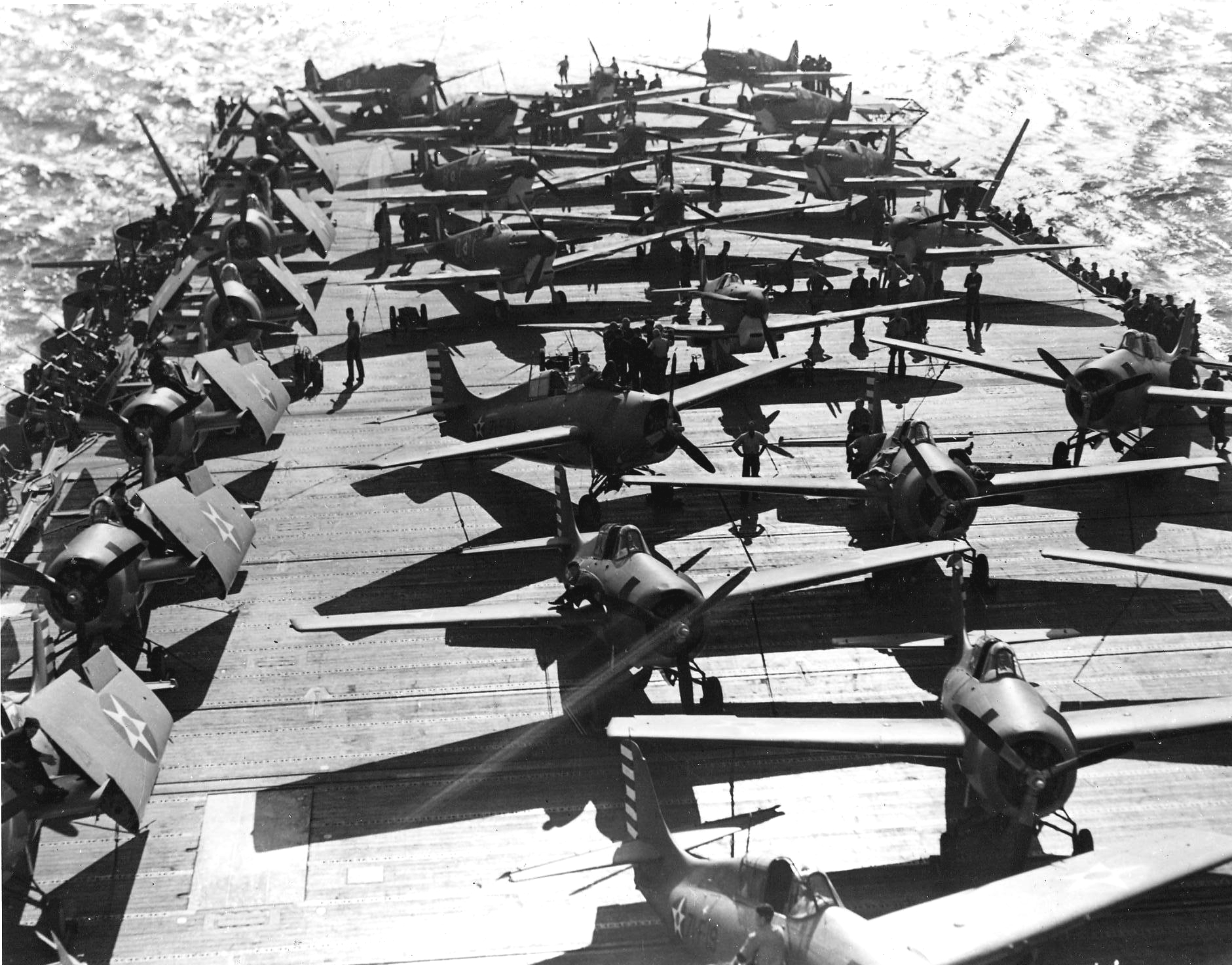 U.S. Navy Grumman F4F-4 Wildcat from Fighting Squadron 71 (VF-71) and Royal Air Force Supermarine Spitfire Mk.Vc of No. 603 Squadron RAF on the deck of the aircraft carrier USS Wasp (CV-7) on 19 April 1942. Having landed her torpedo planes and dive bombers at Hatson in Orkney (UK), Wasp had loaded 47 Spitfires of No. 603 Squadron at Glasgow on 13 April, then departed on the 14th for "Operation Calendar". Wasp and her consorts passed through the Straits of Gibraltar under cover of the pre-dawn darkness on 19 April. At 04:00 hrs on 20 April, Wasp spotted 11 Wildcats on her deck and launched them to form a combat air patrol. Meanwhile, the Spitfires were warming up their engines and later launched for Malta. When the launch was complete, Wasp retired toward Gibraltar.